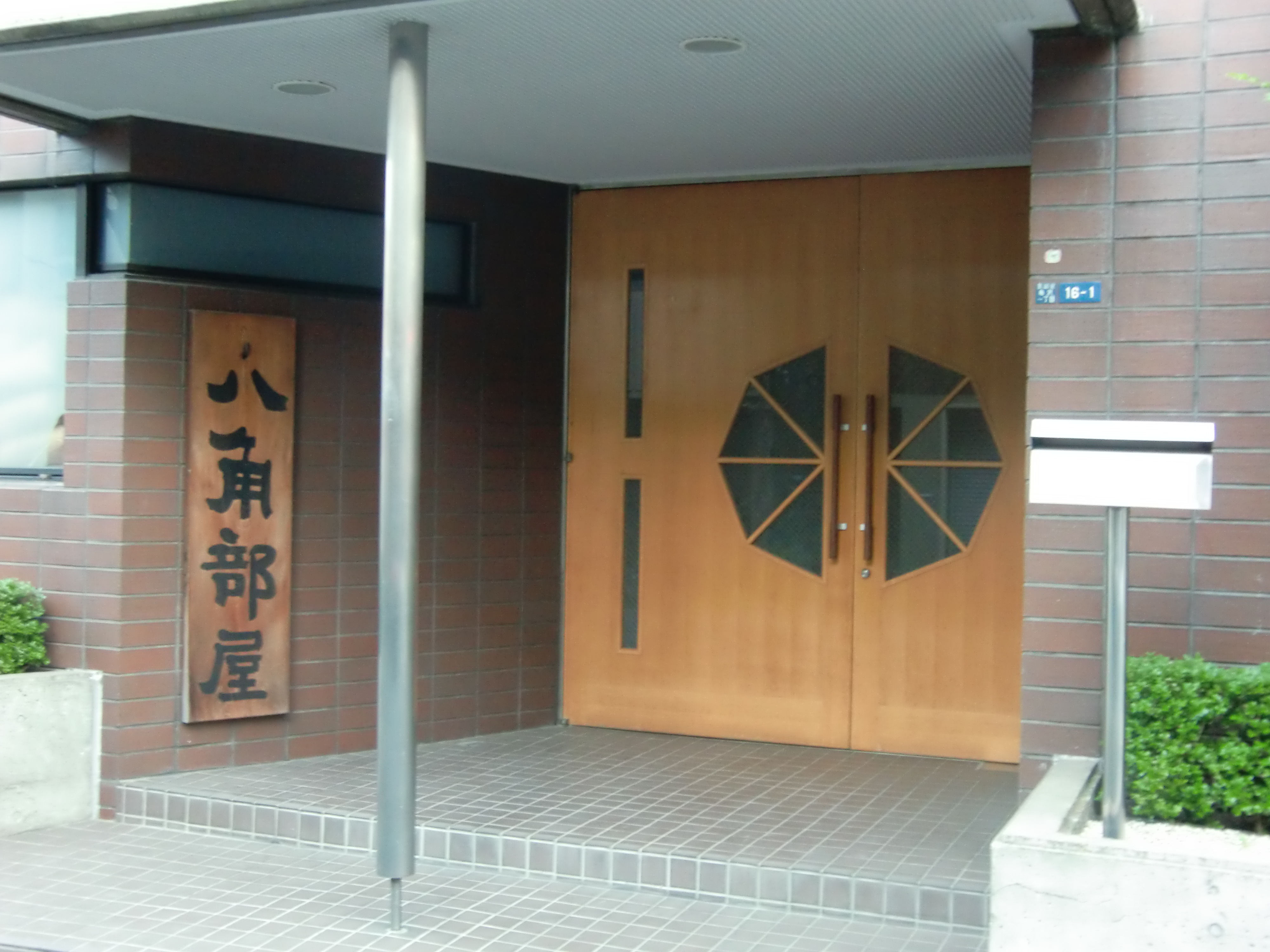 Taken outside the stable